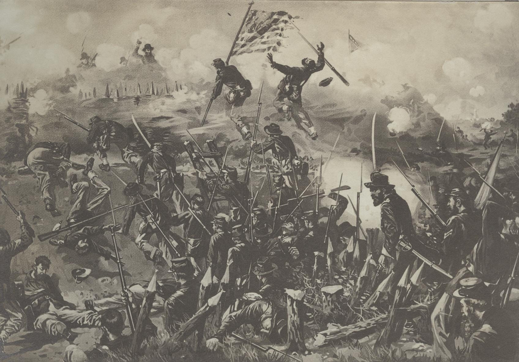 This image displays the intense fighting between Union and Confederate forces on June 25th, 1863, at the 3rd Louisiana Redan (known as Fort Hill during the siege) Union forces of Mortimer D. Leggett's 1st Brigade of Maj. Gen. John A. Logan's 3rd Division, Maj. Gen. James B. McPherson's XVII Army Corps assaulted Confederate forces of Brig. Gen. Louis Hébert's 1st Brigade of Maj. Gen. John H. Forney's Division, Lt. Gen. John C. Pemberton's Army of Vicksburg were able to stop the assault which lasted 26 hours.